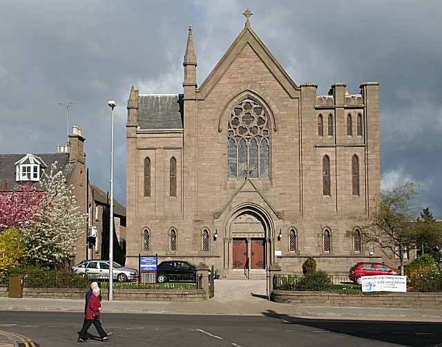 St Margaret's Kirk Originally a Free Kirk, this is now one of the few churches still in active use in Forfar.